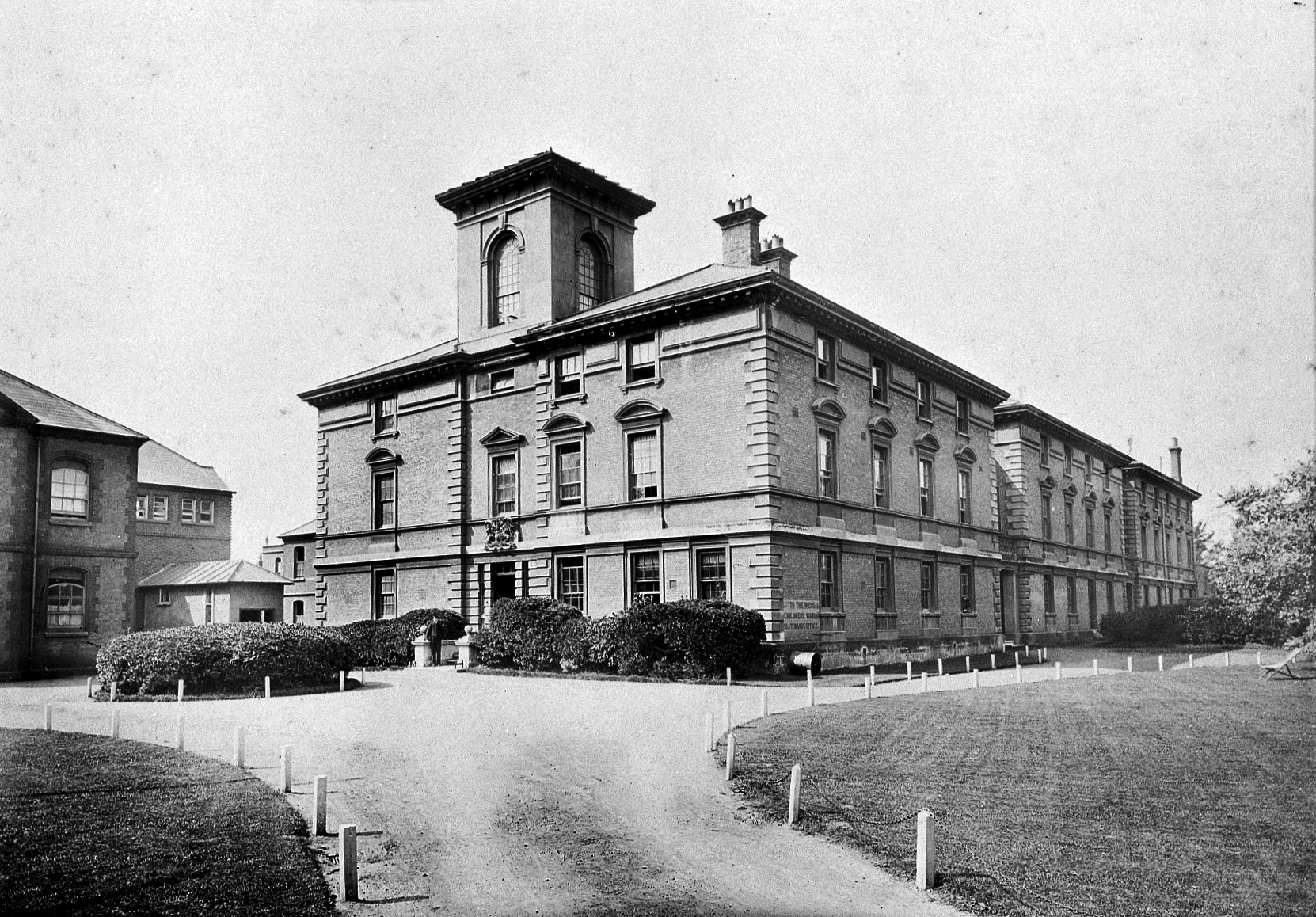 Royal Hospital, Portsmouth, 1902. Photograph of main view of buildings from driveway. Iconographic Collections Keywords: Hospitals